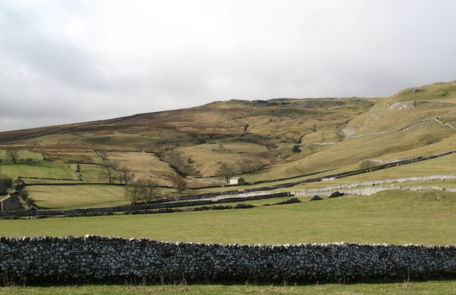 On the fault line? The Mid Craven fault runs W-E just to the north of Malham village, and this photo is looking west roughly along the line of it. The only indications of any geological feature here is the contrast between the outcrop of Great Scar Limestone on the hillside to the right and the Bowland series of shales and sandstones of Kirkby Fell [centre and left].